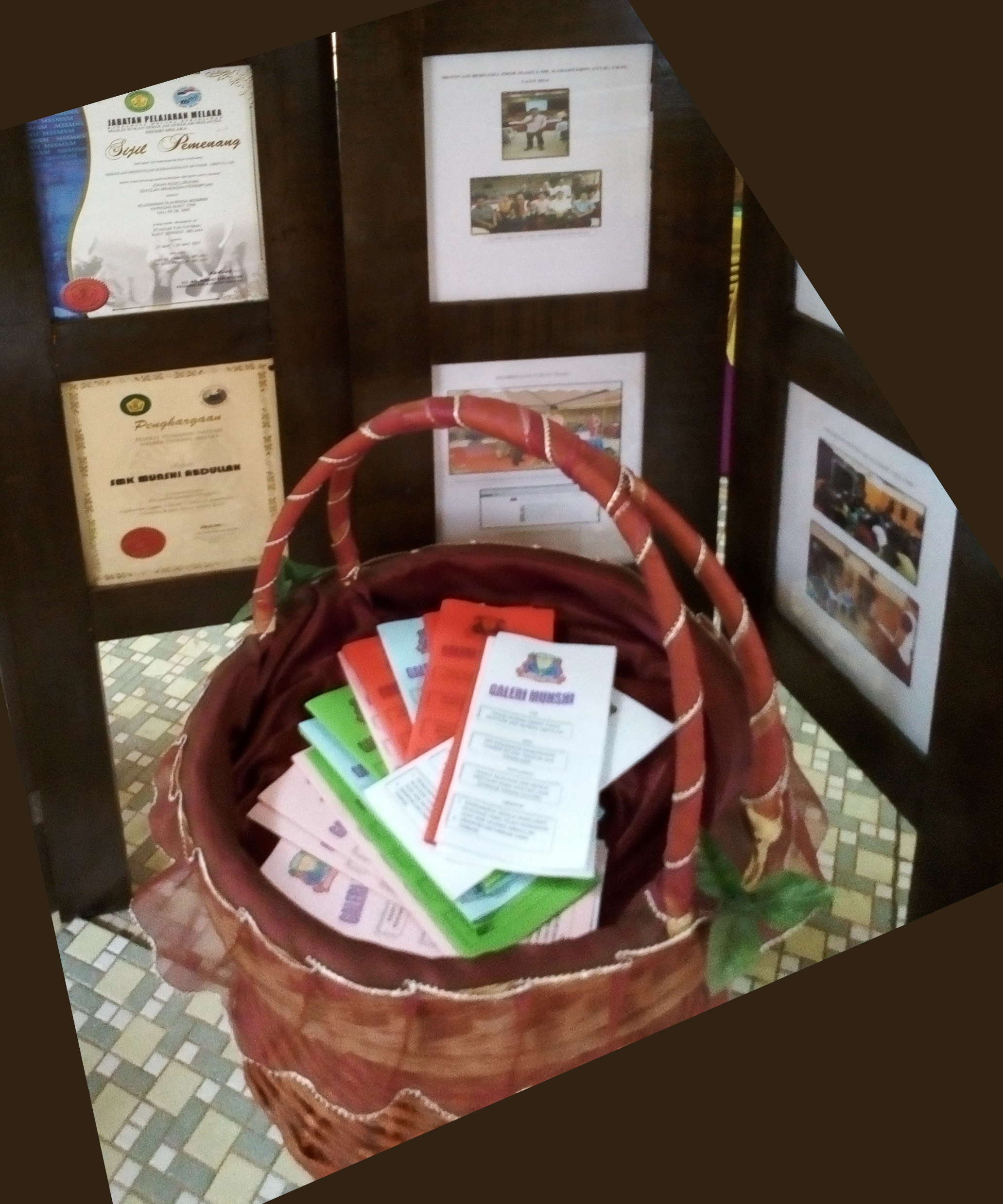 Sudut Ruangan Galeri Warisan